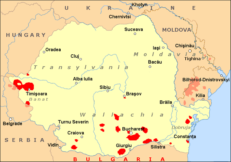 Map of the Bulgarian communities in Romania